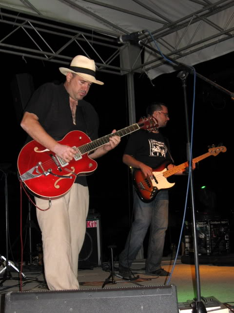 Neno Belan & Fiumens performing live in Novi Sad